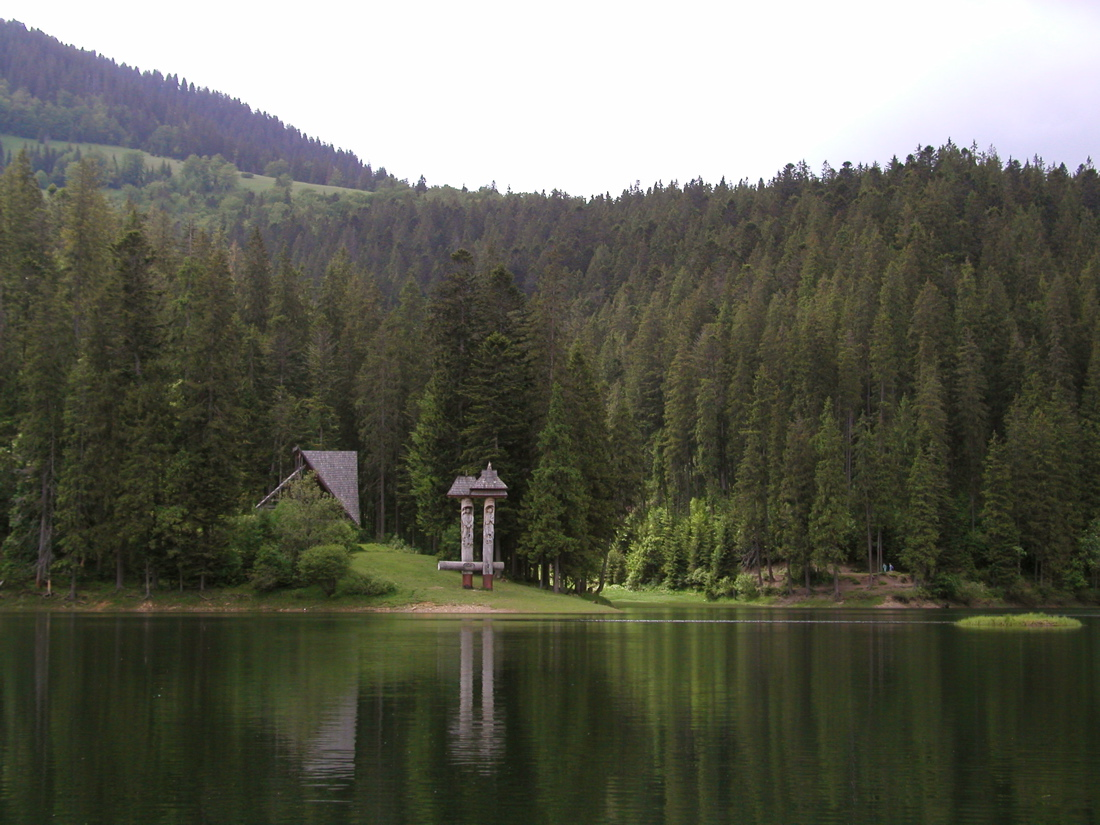 Lake Synevyr (Trancarpathian region, Ukraine)